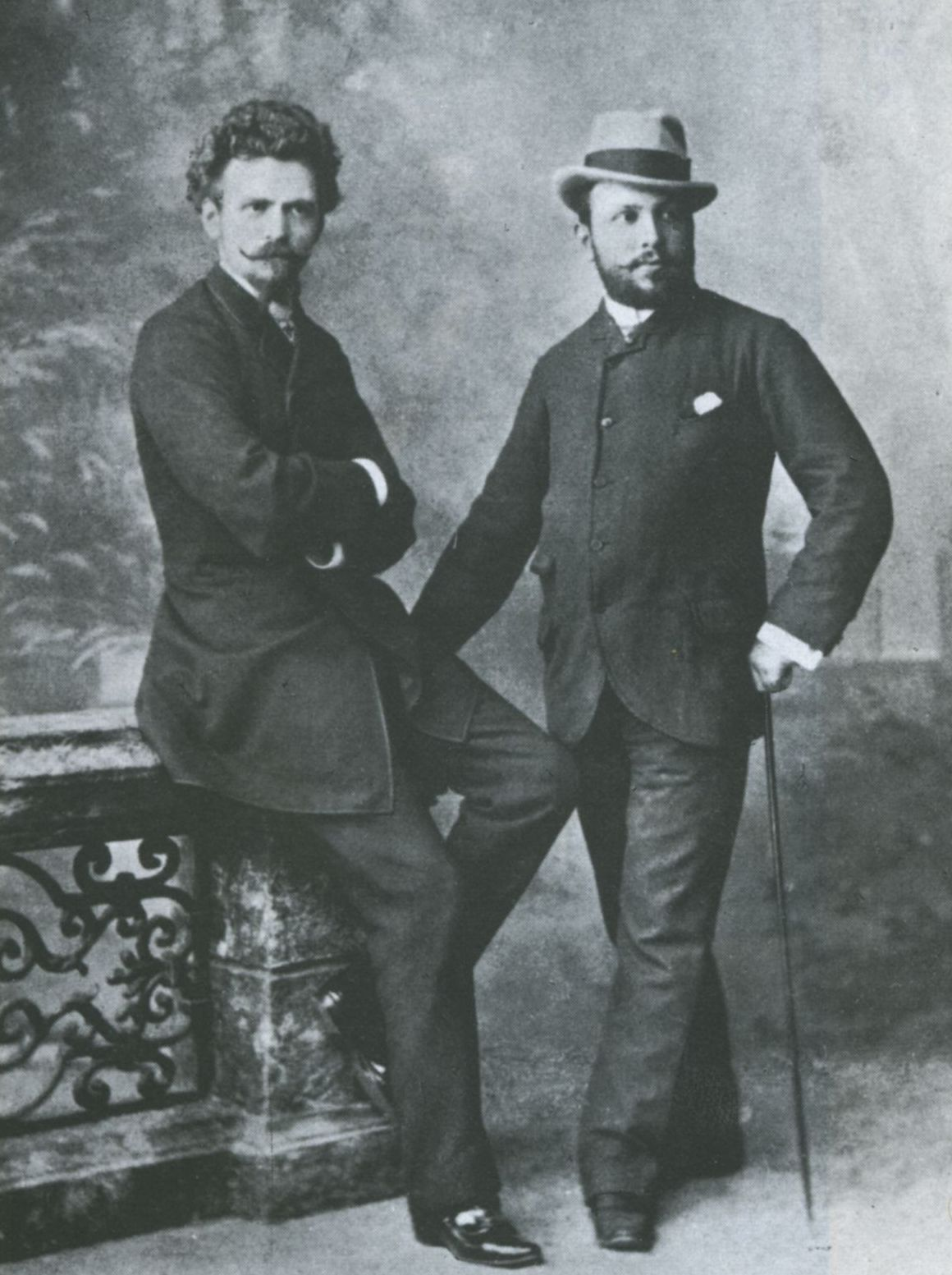 Jenő Hubay and Victor von Herzfeld in the 1890s